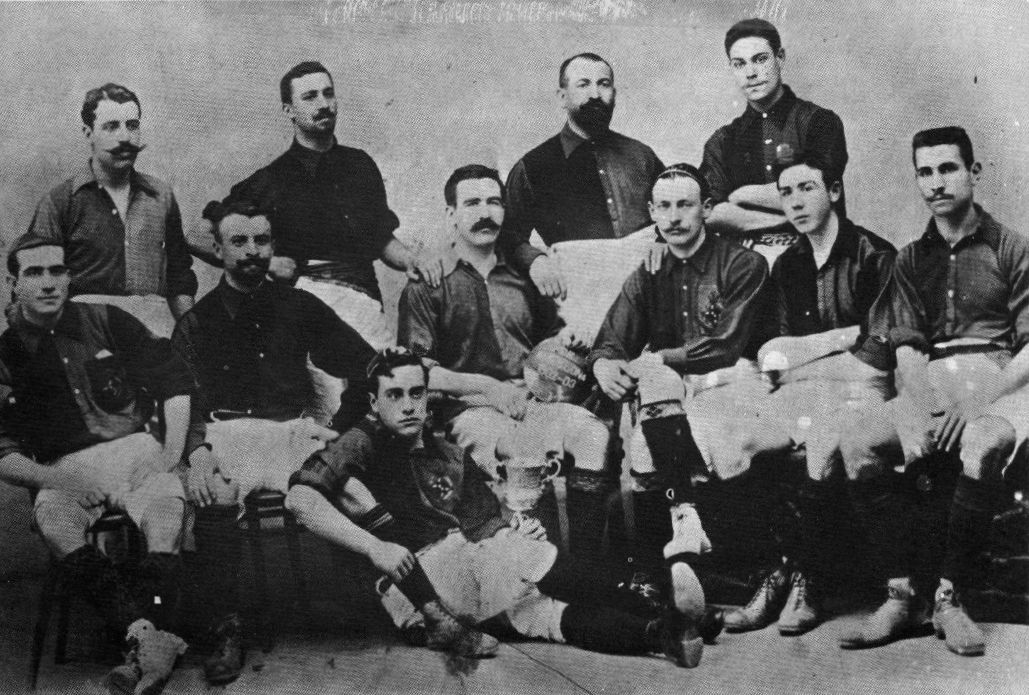 Futbol Club Barcelona team winner of Copa Barcelona in 1903